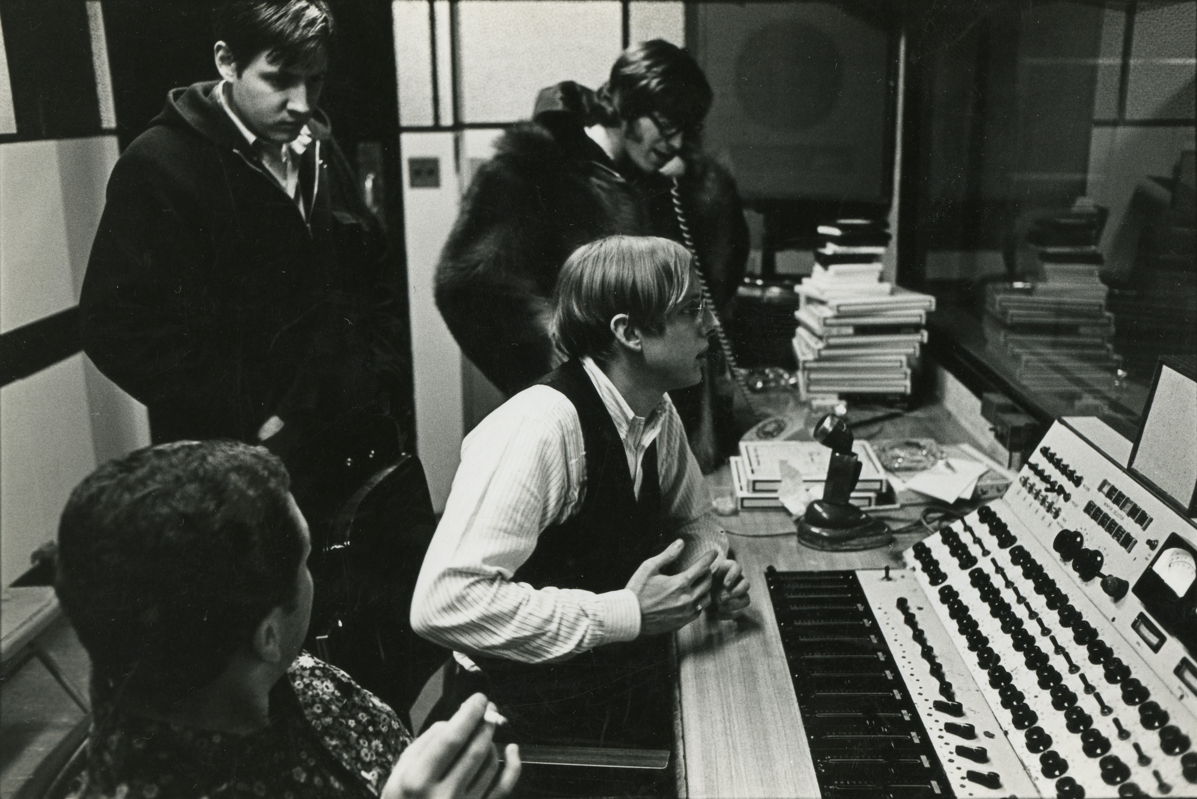 Erik Jacobsen at the desk in the studio with the Lovin' Spoonful